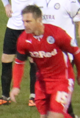 Hednesford Town FC v Crawley Town FC Hendesford Town vs Crawley Town, 9 November 2013